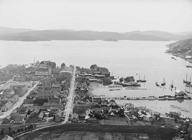 Namsos & Namsfjorden